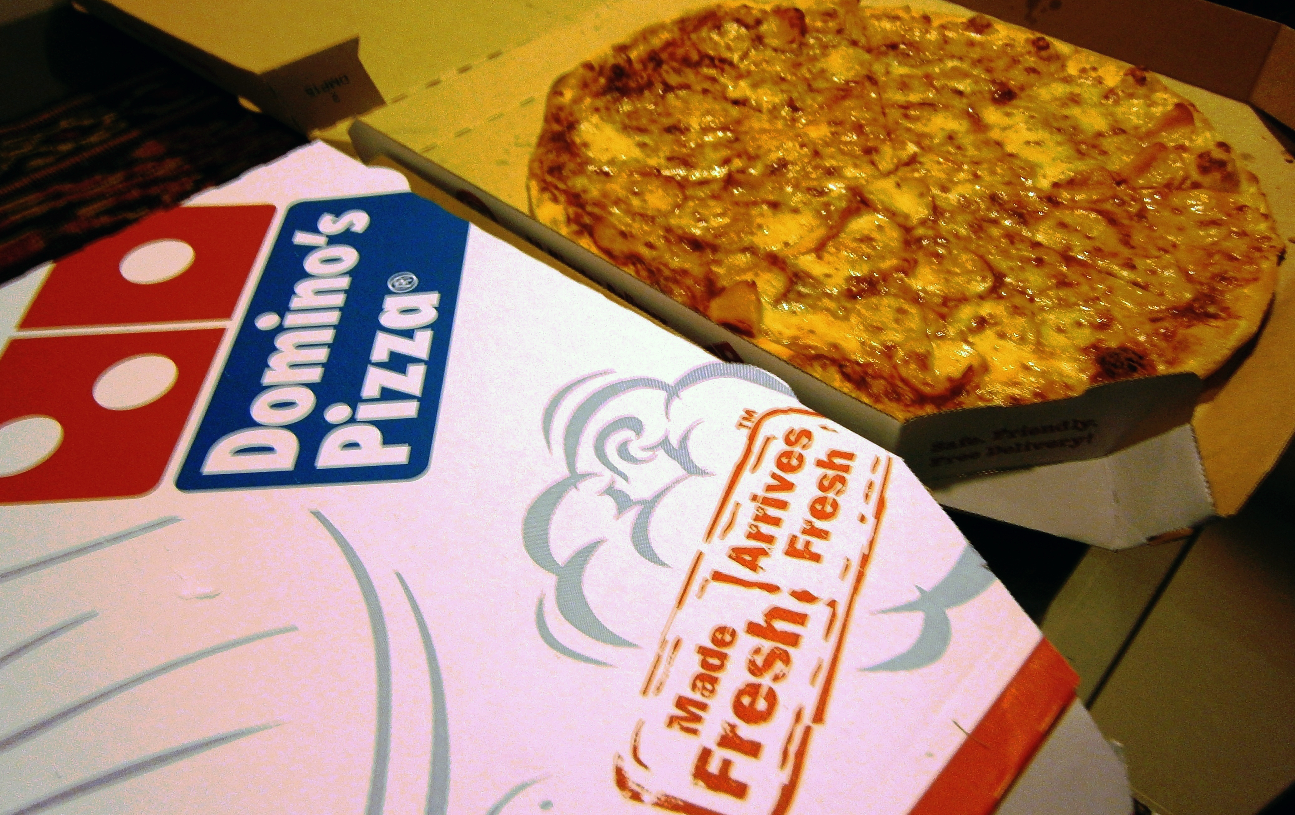 Domino's Pizza (Malaysia), Chicken Pepperoni, New York Crust. This photo was taken in low lighting conditions.